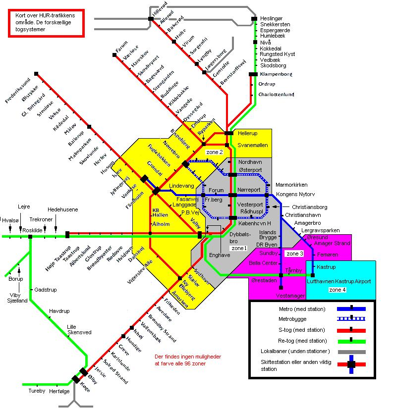 For danish wikipedia. Article Copenhagen rail-communications. Image shows the three main urban rail system of Copenhagen with all it's stations and ticket fare zones 1-4 (zone 1 city center, zone 1 close to city center, zone 2 inner city north and west, zone 3 inner city and zone 4 airport and a nearby station. In all there is close to 100 zones, but it's impossible to colour them all. And some zones have only busses) Primary use is NOT to show the different lines of f.i. the s-train system, but to show how metro, s-train, re-trains (and a little of the perifer local trains) interacts with each others. Secondary use is to show stations inside the city as opposite to suburbs and nearby smaller towns. Carefully assembled from other maps of separate system. Image shows also how Re-train passes S-train stations whithout stop and at which stations you can change either lines or system.